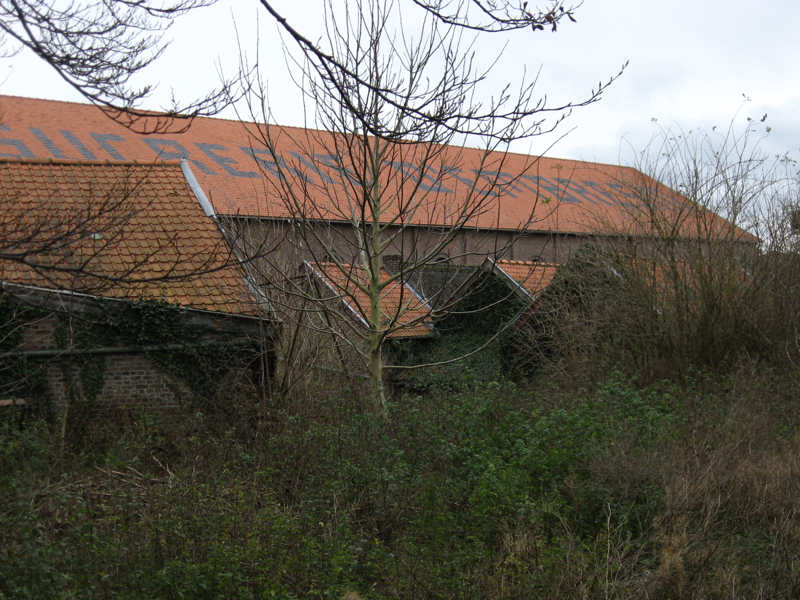 Old sugar refinery storage in Ambresin. This was connected with a smalltrack railway to the main railways. The old name of the locality is Embresin.